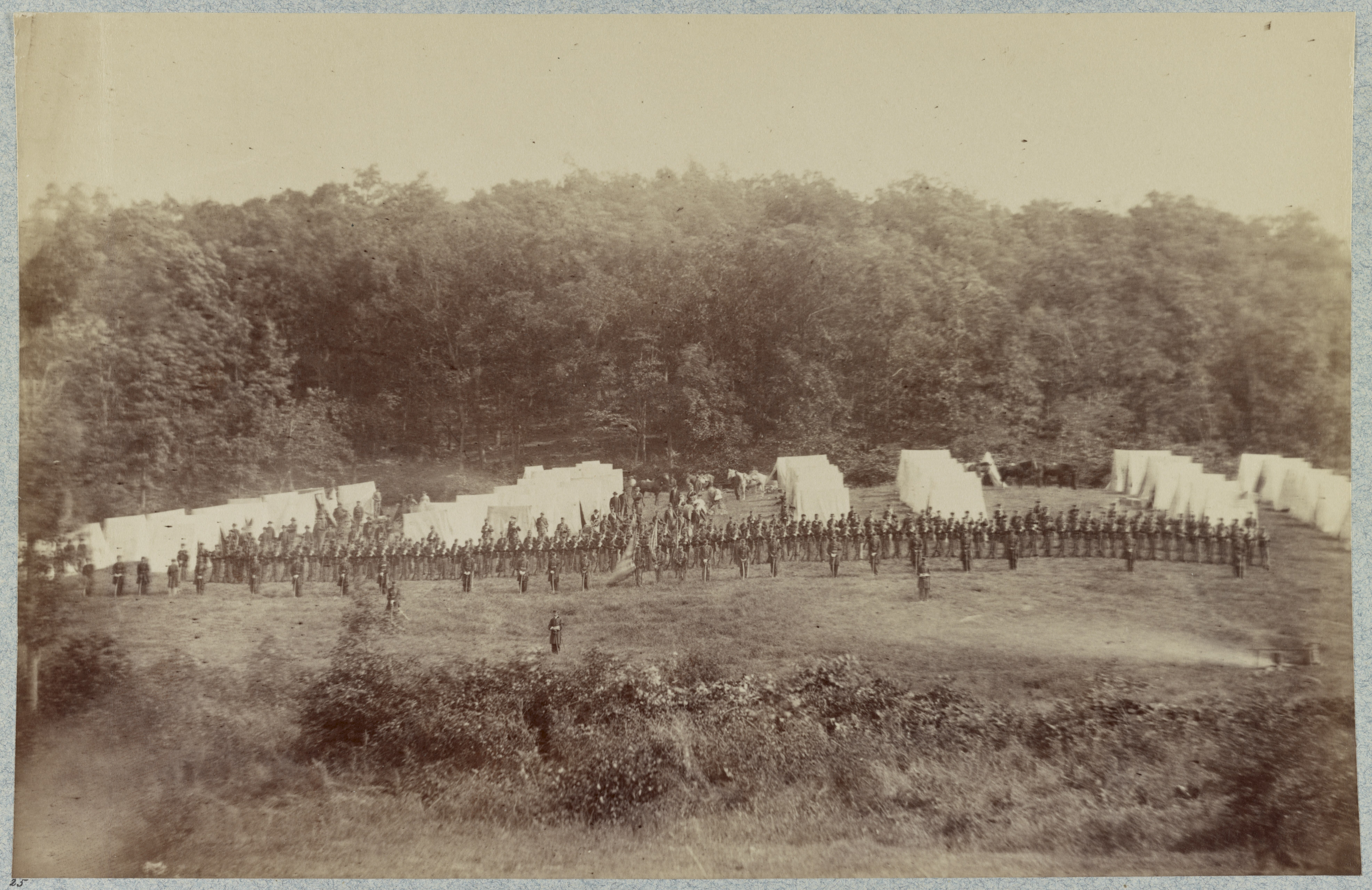 Title: 50th Pennsylvania Infantry, Gettysburg, Pa., July, 1865 Physical description: 1 photographic print on card mount : albumen. Notes: Alternate title, photographer, and date from Catalogue of photographic incidents of the war, from the gallery of Alexander Gardner...by Bob Zeller, published by the Center for Civil War Photography, c2003.; Gift; Col. Godwin Ordway; 1948.; No. 25.; Included in alternate title: (LoC caption includes: "Present at the laying of corner stone at Gettysburg, July 4.").; Title from item.